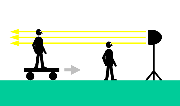 light velocity in theory of relativity